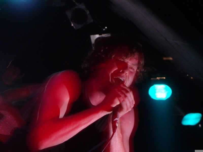 hopesfall' s singer